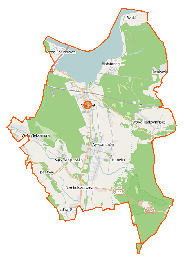 Map of Gmina Nieporęt, PolandThis map of Nieporęt (gmina) was created from OpenStreetMap project data, collected by the community. This map may be incomplete, and may contain errors. Don't rely solely on it for navigation.